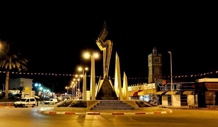 Statue of September 5th at night in Moknine, Tunisia